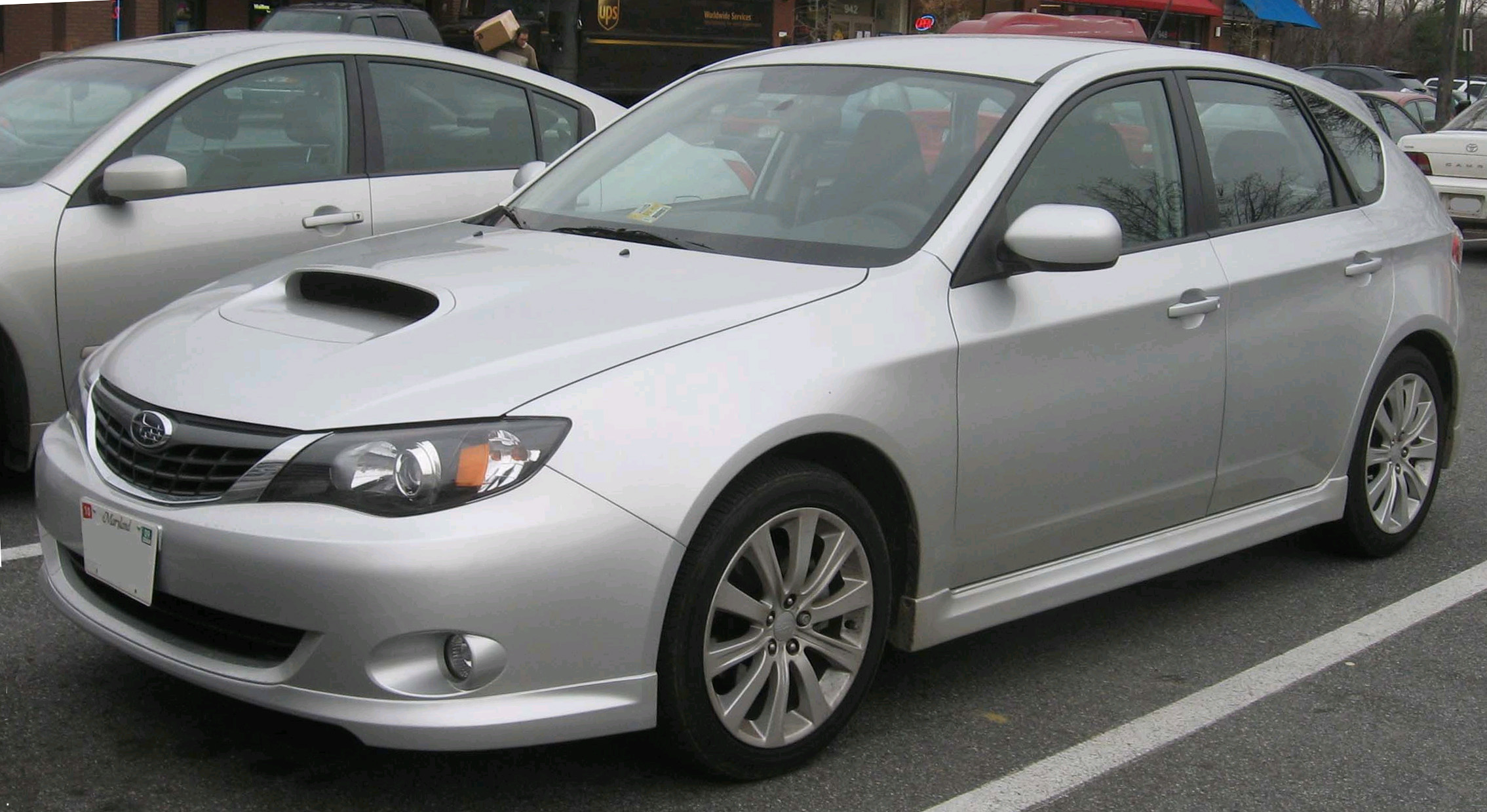 2008 Subaru WRX photographed in Fort Washington, Maryland, USA.